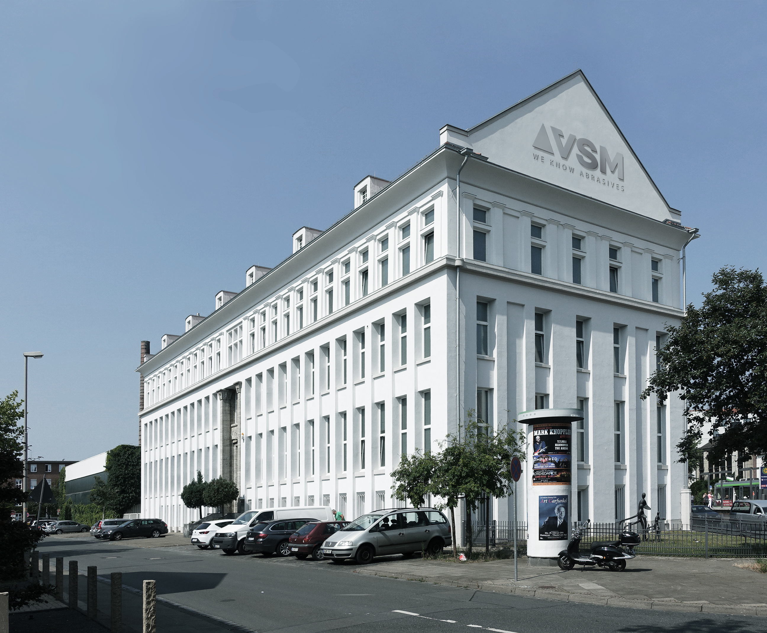 This picture shows the historical main building of VSM AG in Hanover, Germany.